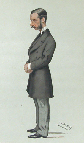 Caricature of James Hamilton, Marquess of Hamilton (later the 2nd Duke of Abercorn). Titled "Hamlie".